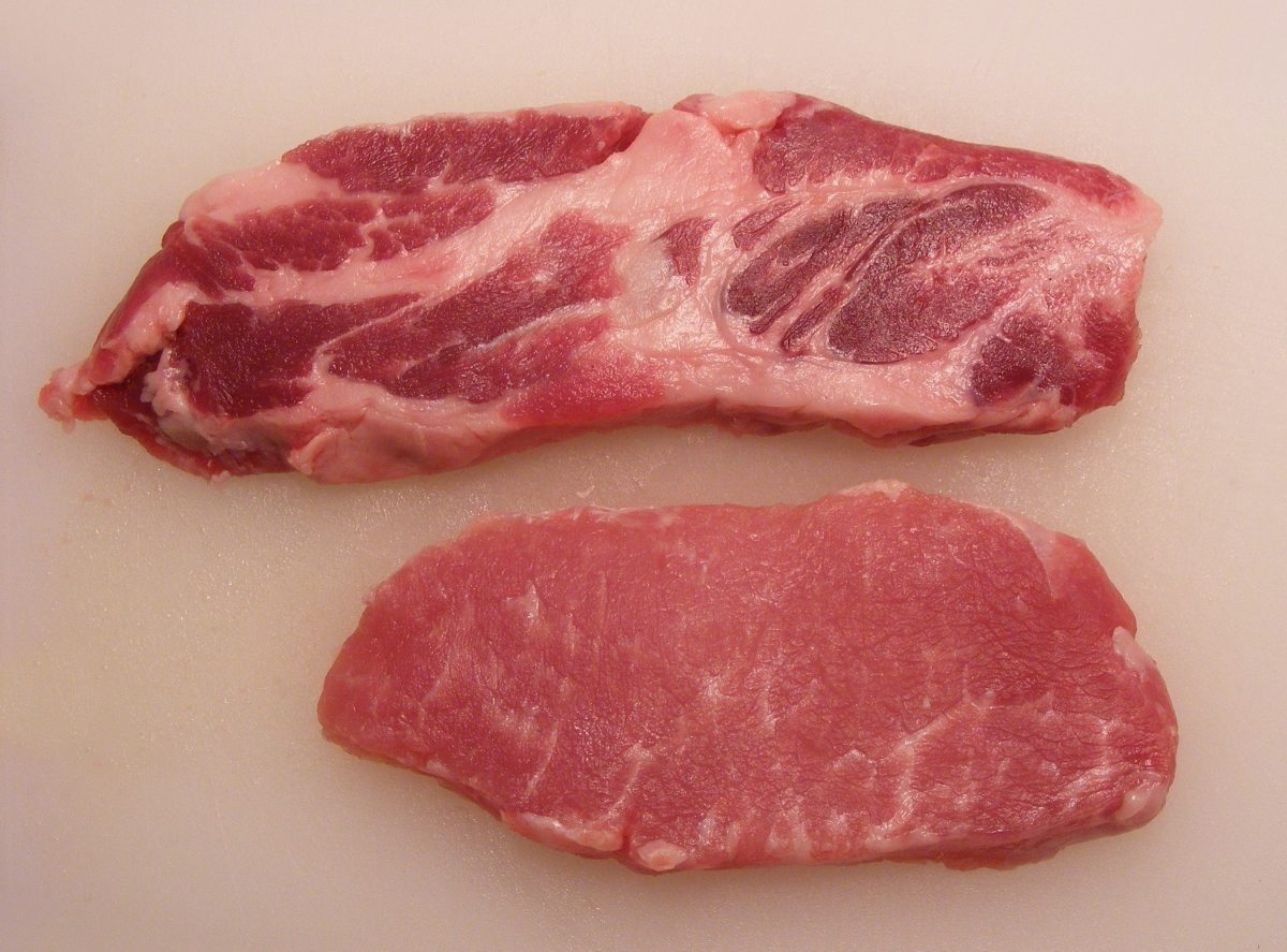 Two sample-pieces of Iberico porc. At the top a thin slice of shoulder, at the bottom a thin slice of fillet.